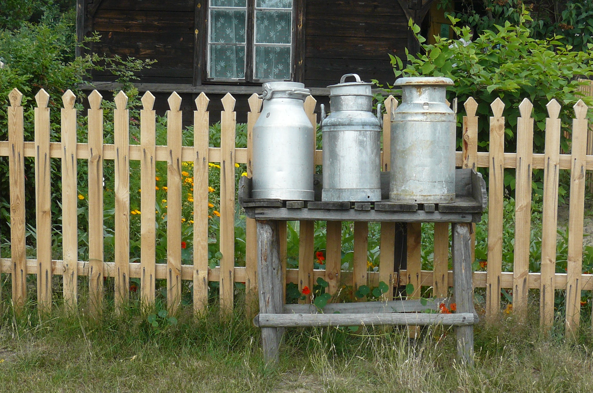 Osiek nad Notecia, skansen. PL.